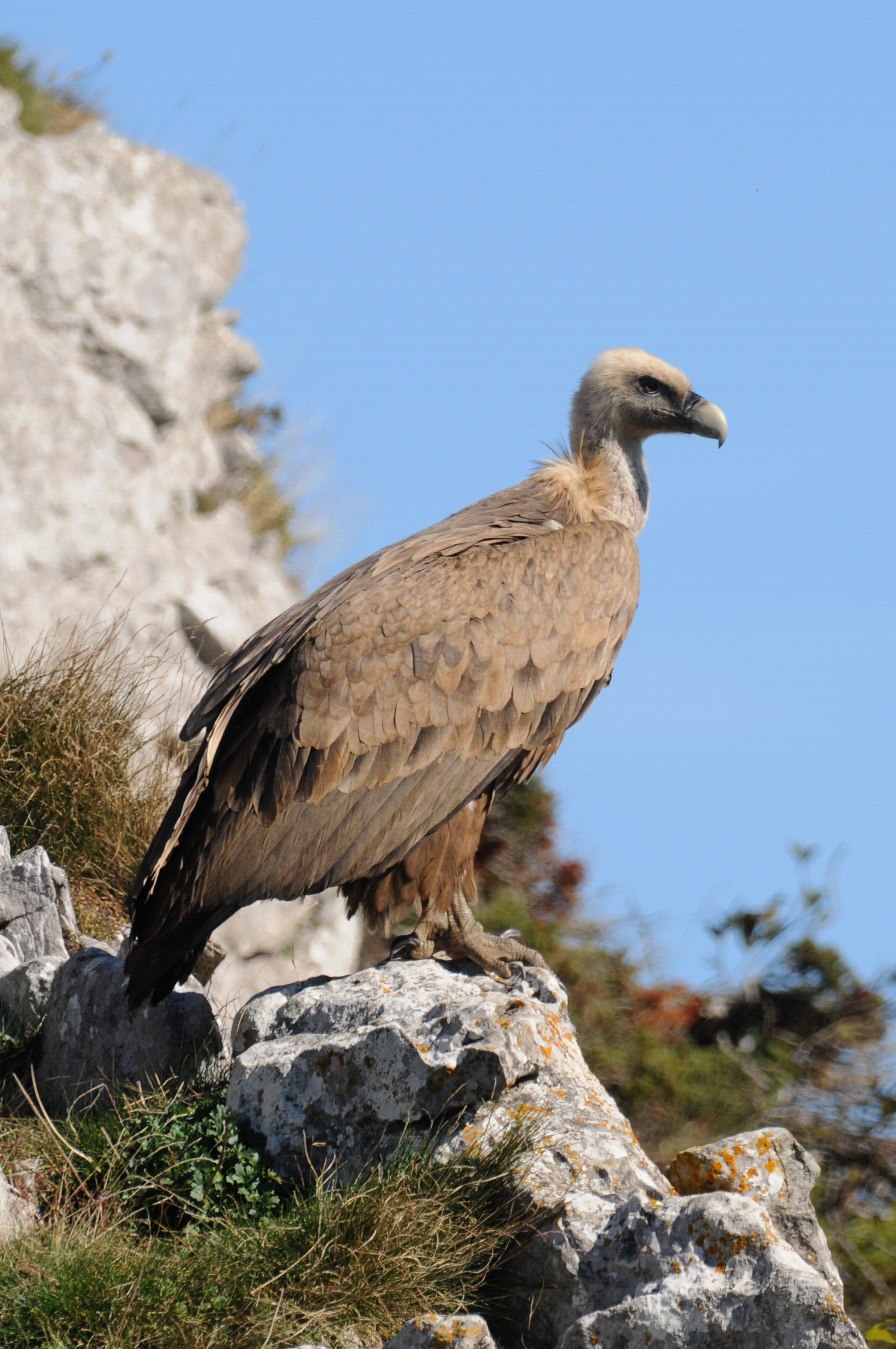 A subadult Griffon Vulture (also known as the Eurasian Griffon Vulture) photographed in Aralar, Basque Country.